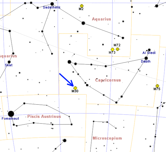 Map of M30